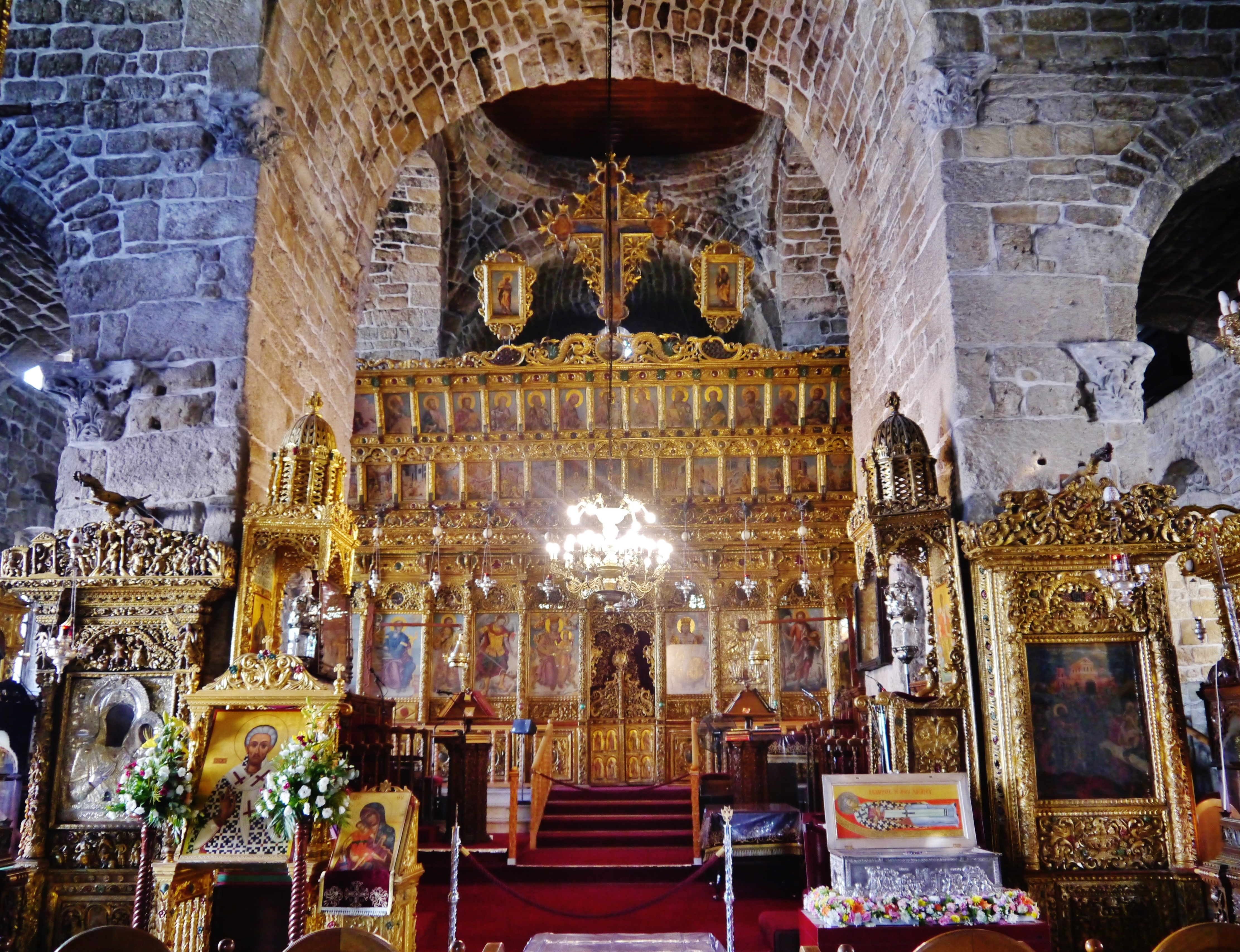 Choir of the Cathedral of St. Lazarus, Larnaca, Cyprus